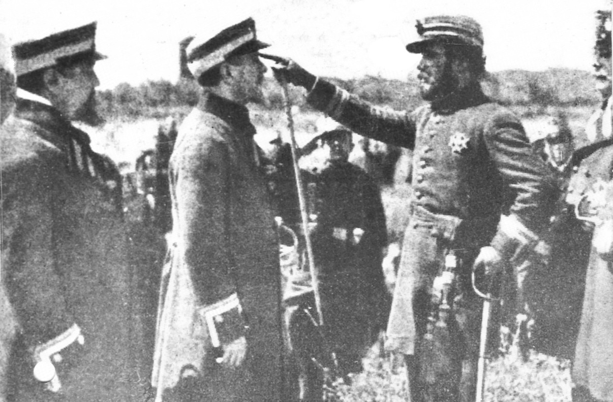 Francisco Solano López, future dictator of Paraguay, watching French troops' maneuvers. Some claim this photograph is actually the Spanish general Juan Prim y Prats since around 1854 the daguerreotype was still in use and photographs in paper materials would only appear in the late 1850s.